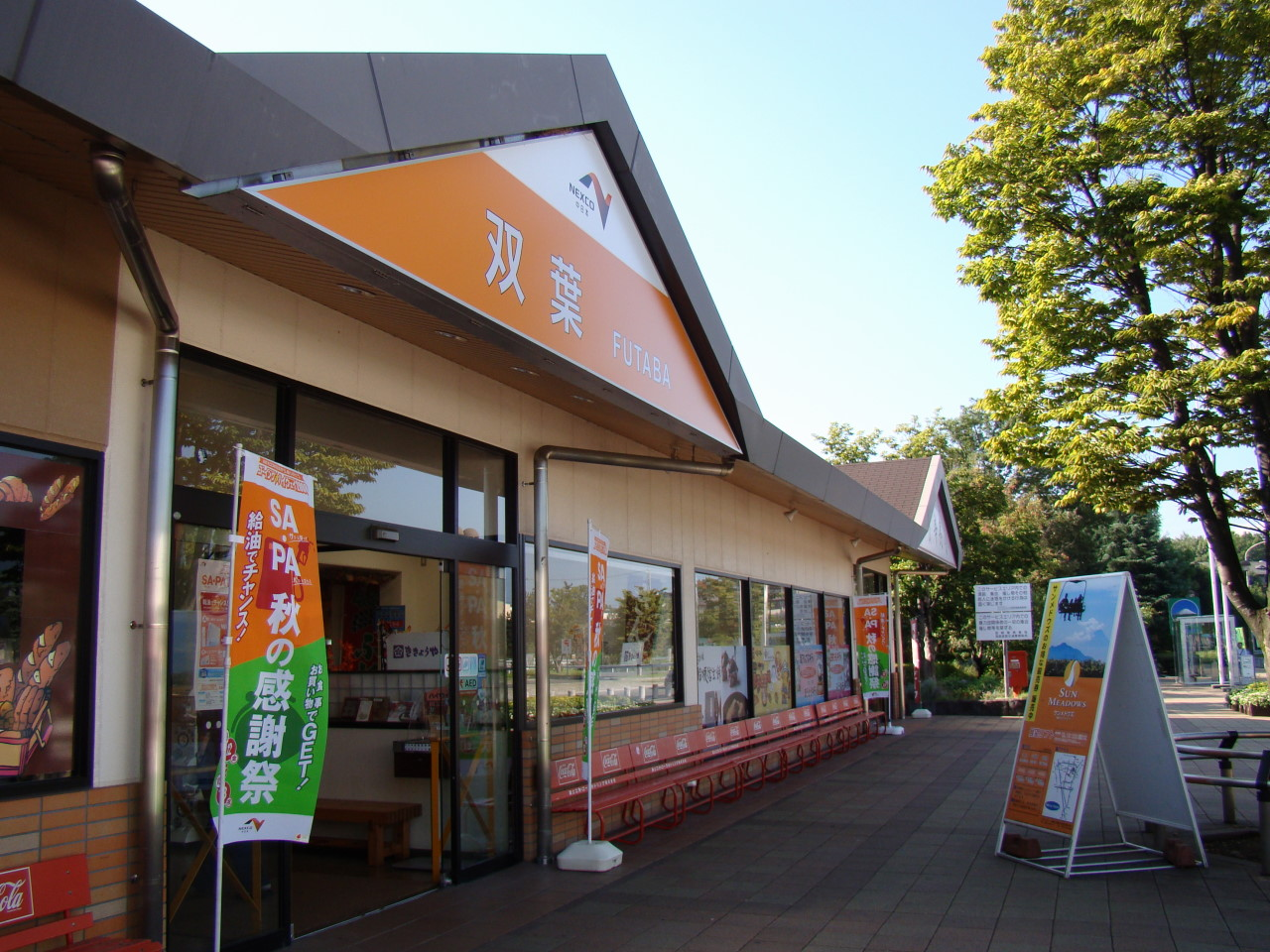 Futaba Service Area on the Chuo Expressway westbound line in Yamanashi Prefecture, Japan